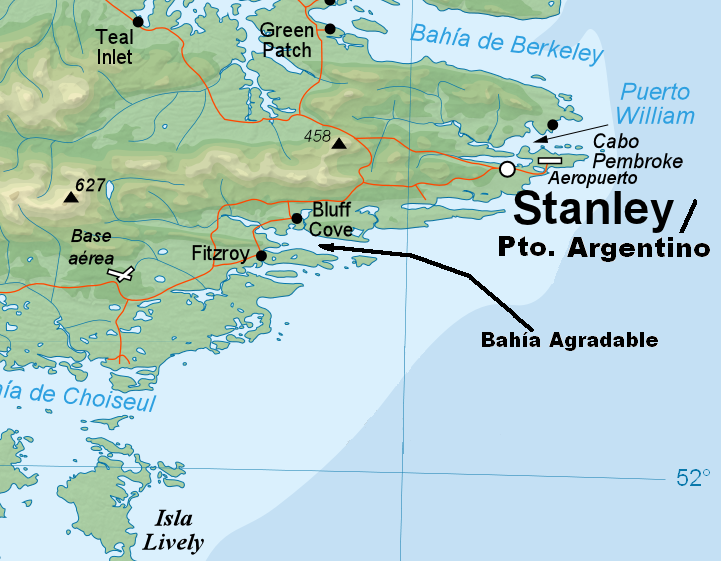 Topographic Map of Falkland Islands with names places in Spanish.